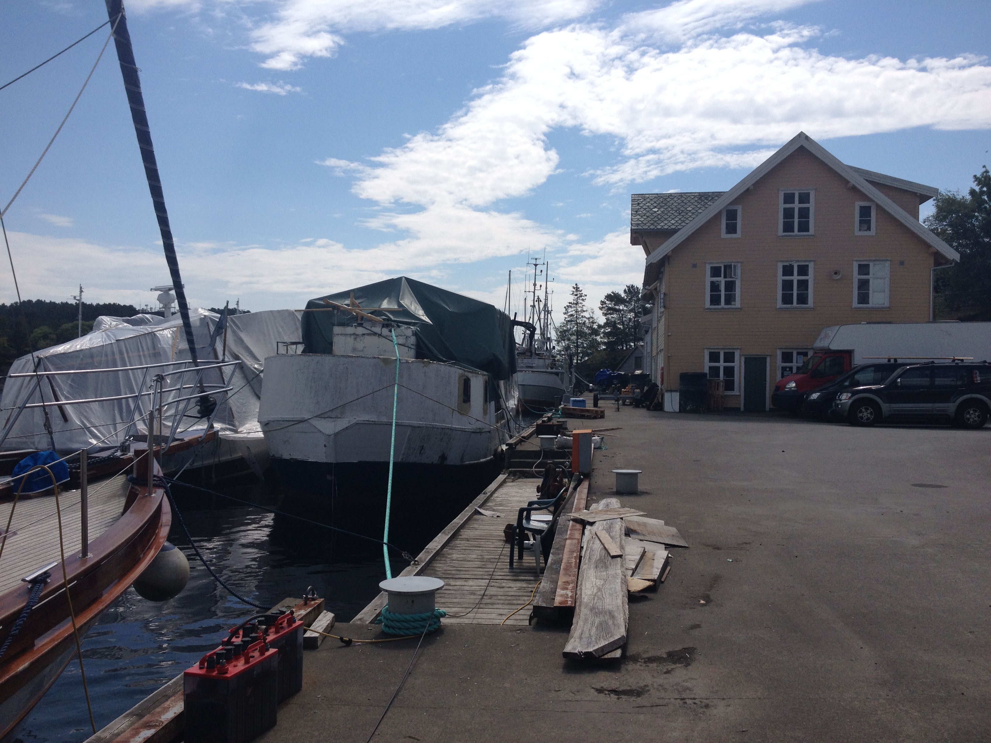 The wharf